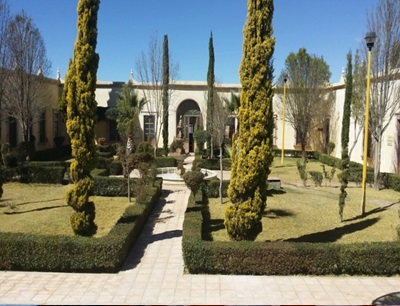 Casa de la Cultura